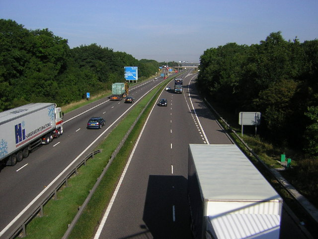 Wadworth Interchange. Junction 2 of the M18 and Junction 35 of the A1(M)- looking north up the A1 from Wadworth Hill Bridge